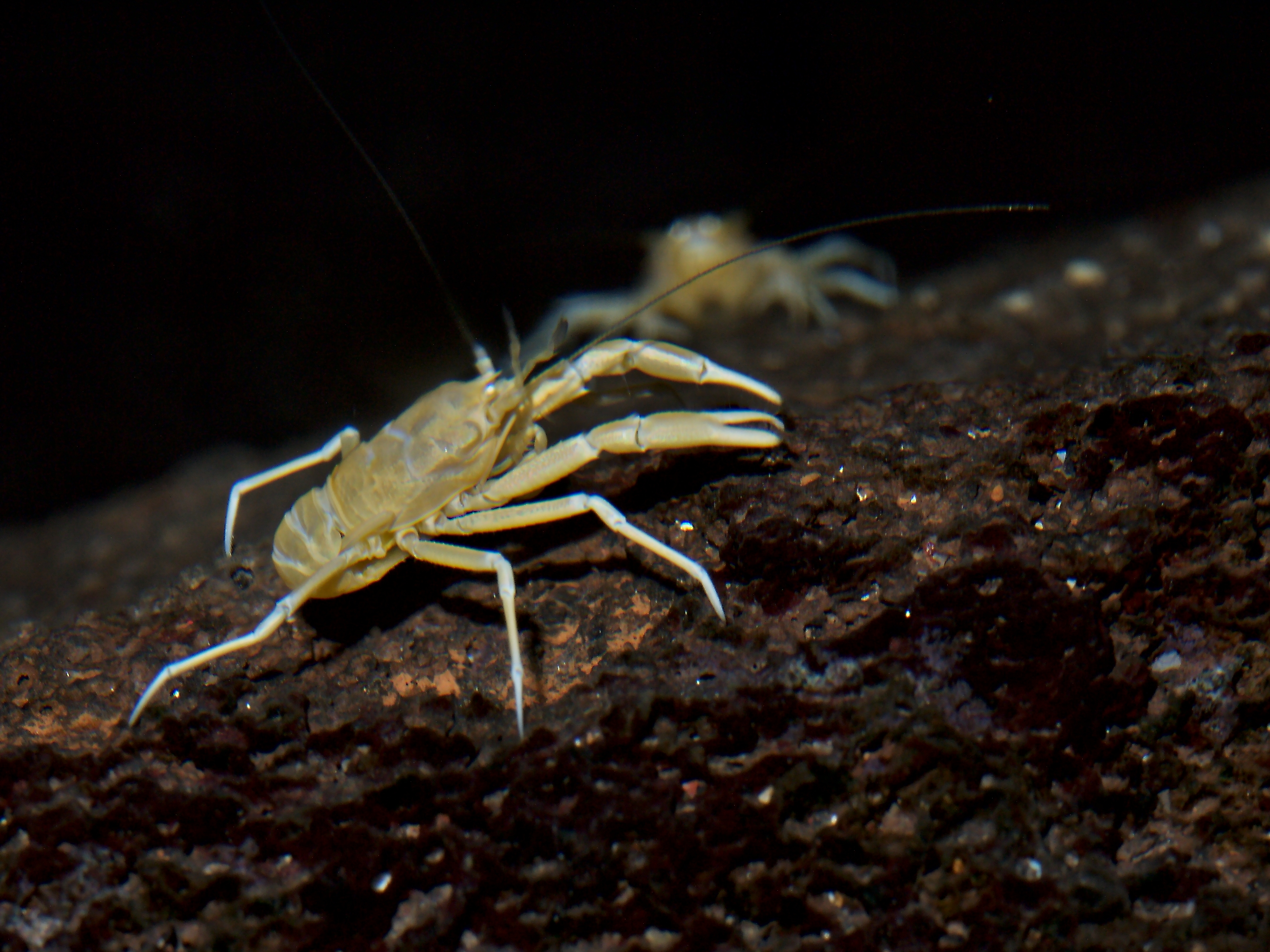 The small cave-dwelling squat lobster Munidopsis polymorpha is endemic to Lanzarote. Recent research indicates that it is probably more widespread in the islands' underground cracks and fissures filled with seawater. Visitors to the island will easily see this species in the famous lava tunnel saltwater lake at "Jameos de Agua", one of the main tourist attractions on Lanzarote and definitely worth a vist. Panasonic GF1 + Leica DG Macro-Elmarit 45mm F2.8 ASPH OIS (flashlight)